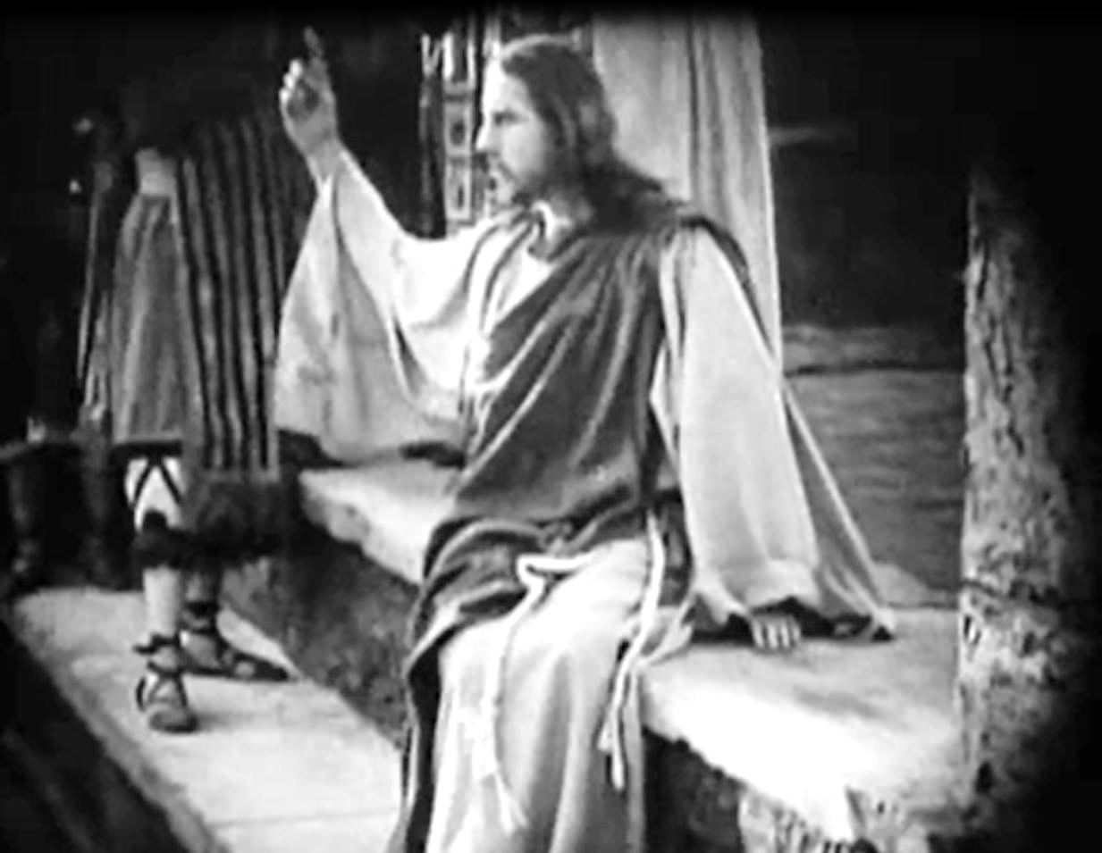 Low resolution screenshot from the public domain version of the film Intolerance (1916). In the Judean Story of the film, a woman accused of adultery is brought by men holding stones before the Nazarene (Howard Gaye) with the statement, "Now Moses in the law commanded us that such should be stoned; but what sayest thou?" - John VIII. The Nazarene writes in the sand on steps, and says, in this scene, "He that is without sin among you, let him first cast a stone at her."